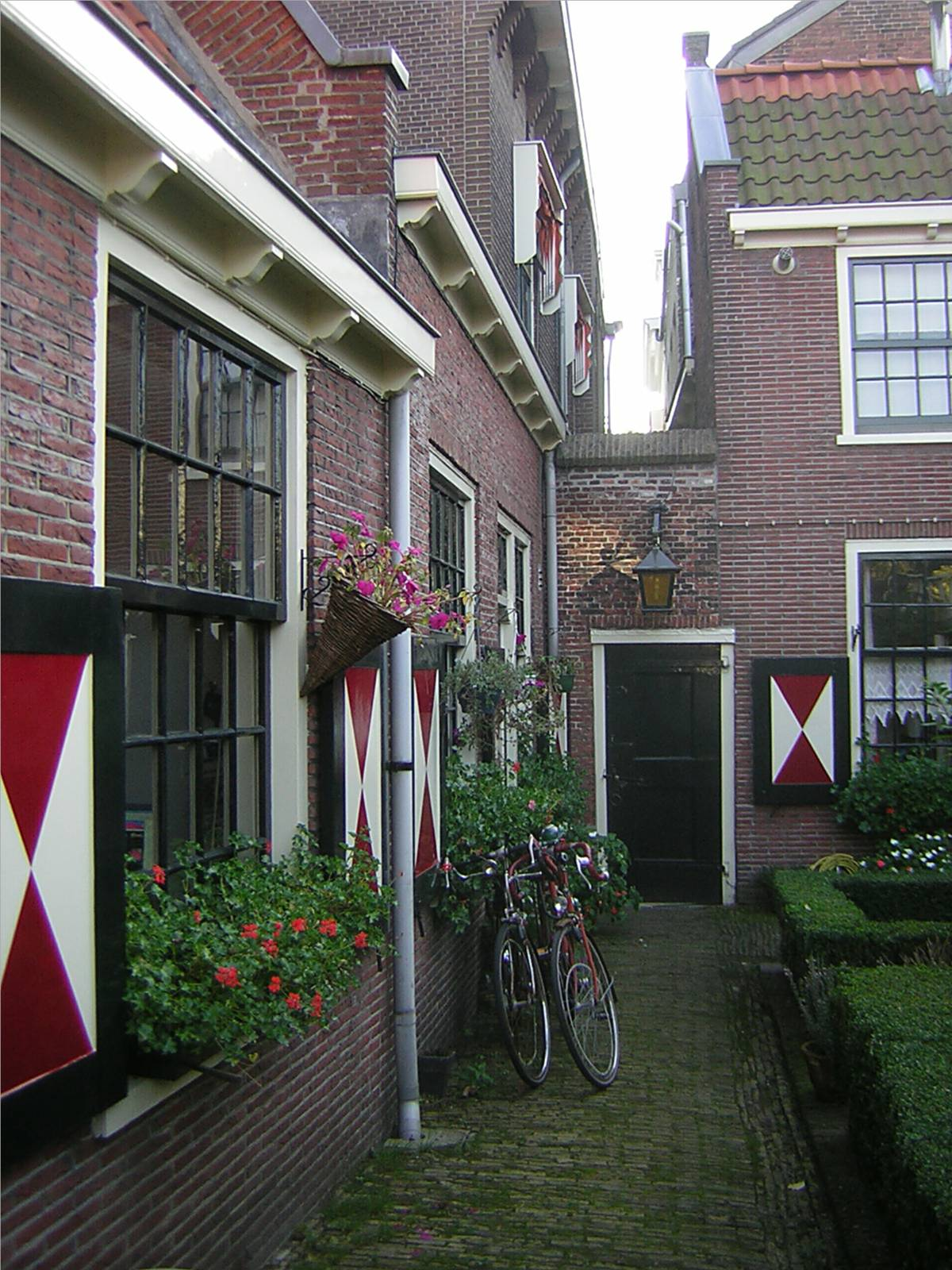 Bruiningshofje (Almhouse), Haarlem, Netherlands